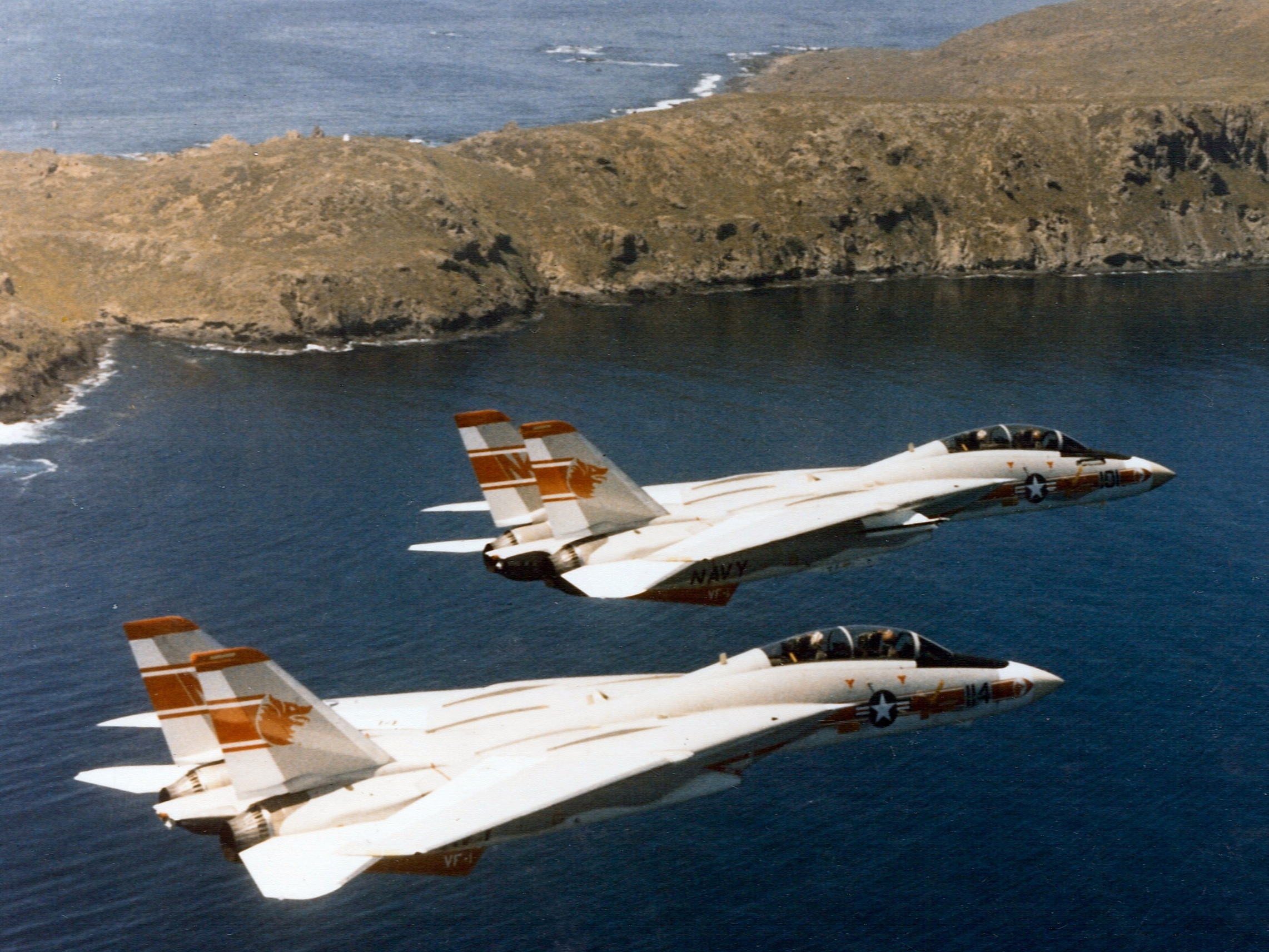 Two U.S. Navy Grumman F-14A Tomcats of Fighter Squadron 1 (VF-1) "Wolfpack" in flight out of Naval Air Station Miramar, California (USA). VF-1 and VF-2 were established on 14 October 1972 as the first operational U.S. Navy Tomcat-squadrons. Both squadrons were assigned to Carrier Air Wing 14 (CVW-14) aboard the aircraft carrier USS Enterprise (CVN-65) from 1974 to 1978.